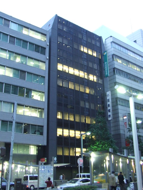 Odakyu Electric Railway Head Office, Shinjuku, Tokyo, Japan